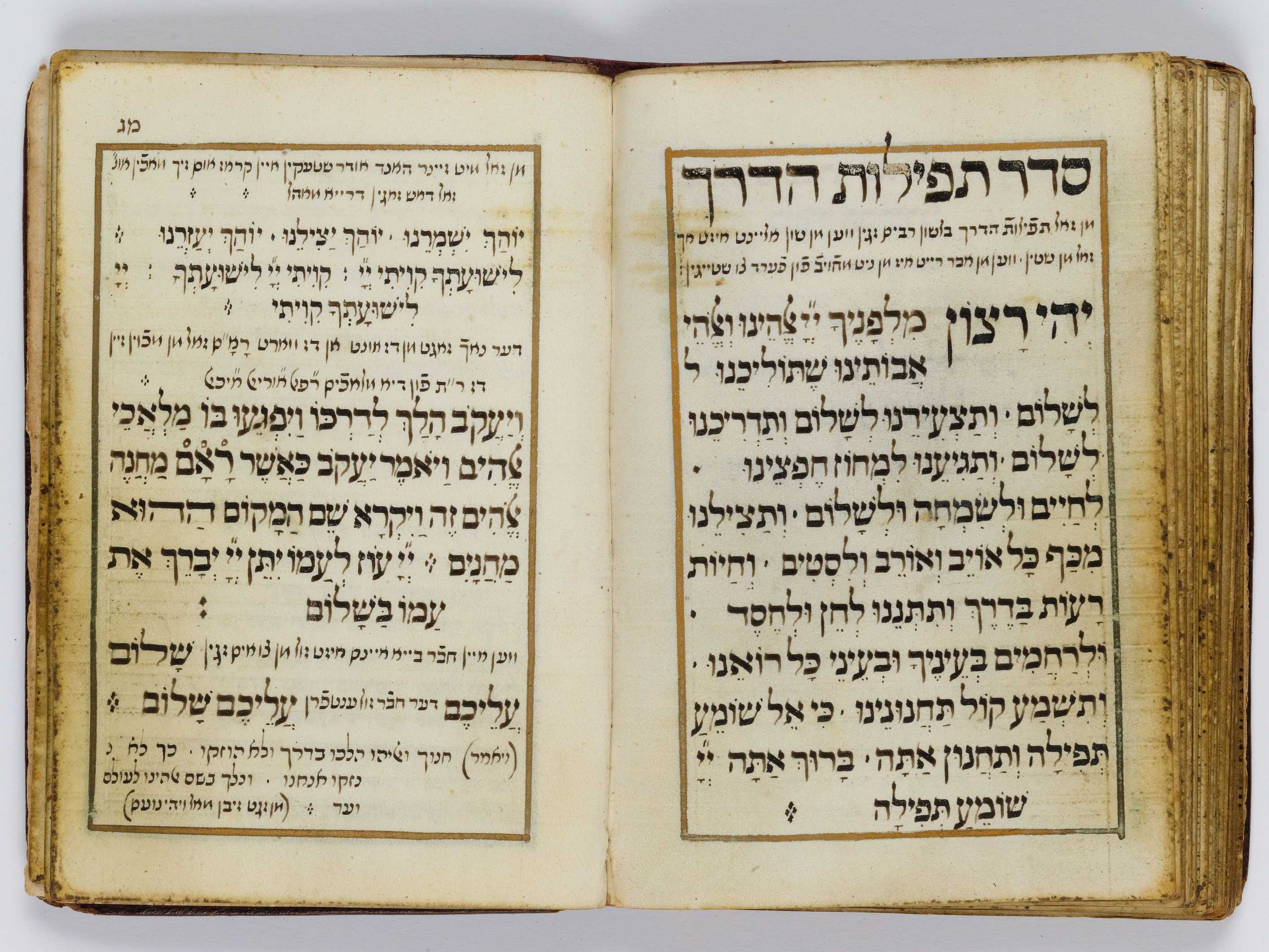 Tfilat haderech